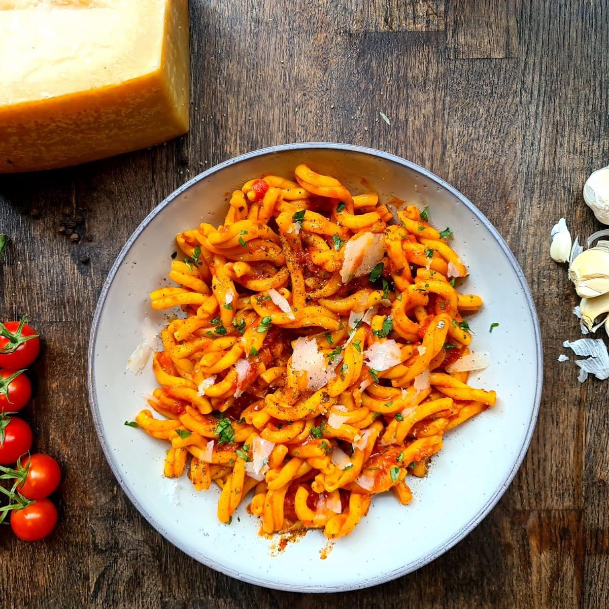 Pasta